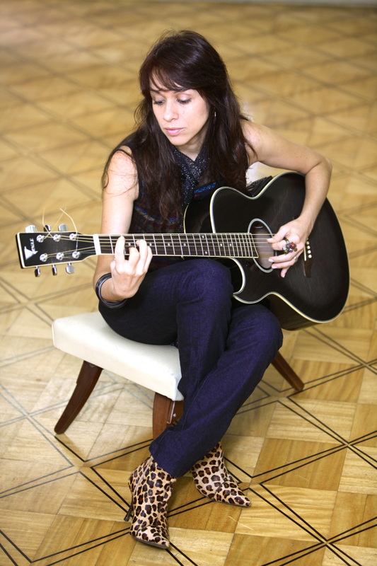 Olivia, brazilian singer and songwriter